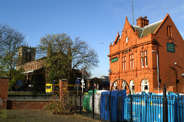 Leigh Parish Church & The Boar's Head in Leigh, Greater Manchester, England. (Full name: Leigh Parish Church of St Mary the Virgin)